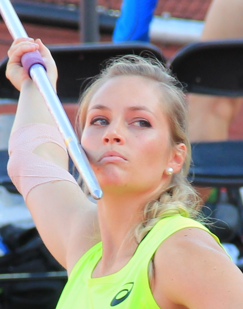 Kelsey-Lee Roberts at the 2018 Bislett Games